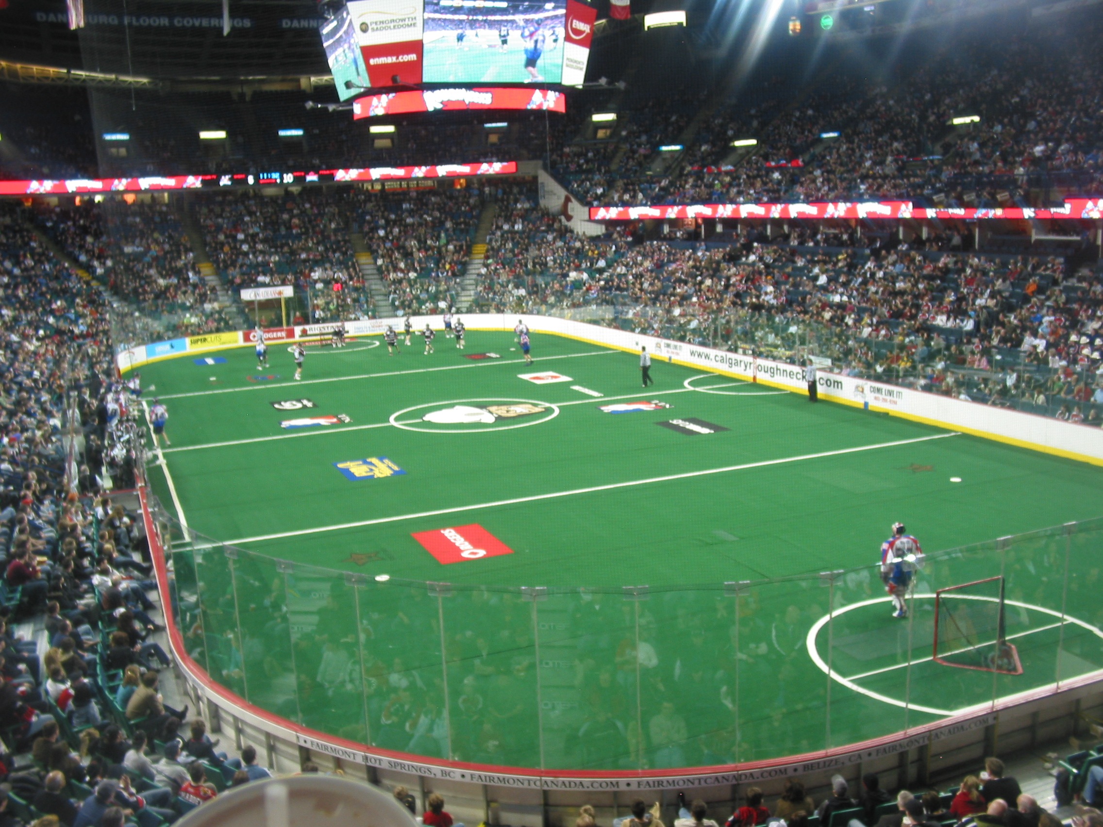 Author: Matthew Brosseau (Myself) License: I took this photo.